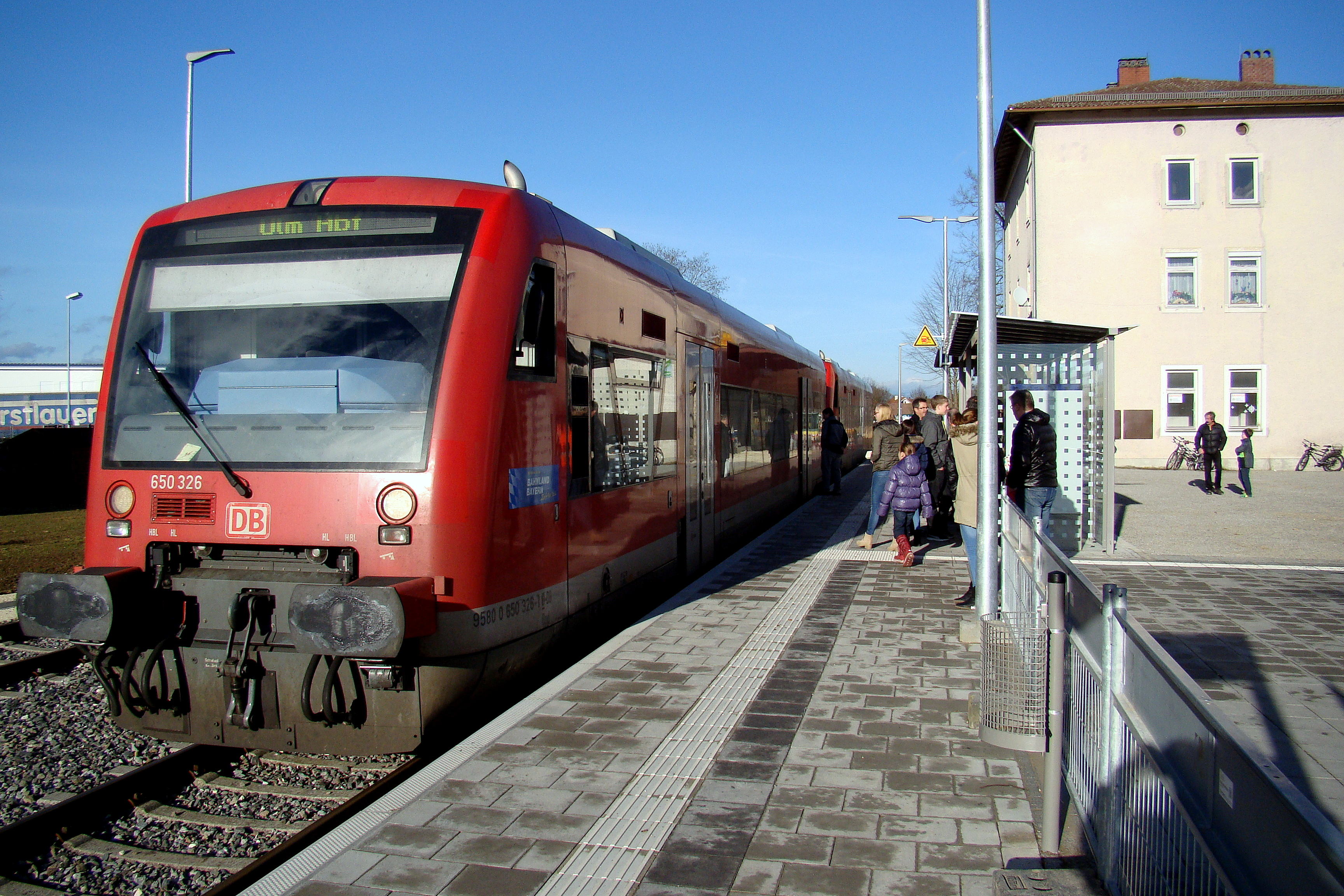 Two diesel railcar class 650 (Regio-Shuttle) wait at the station Weissenhorn for the departure in direction Ulm